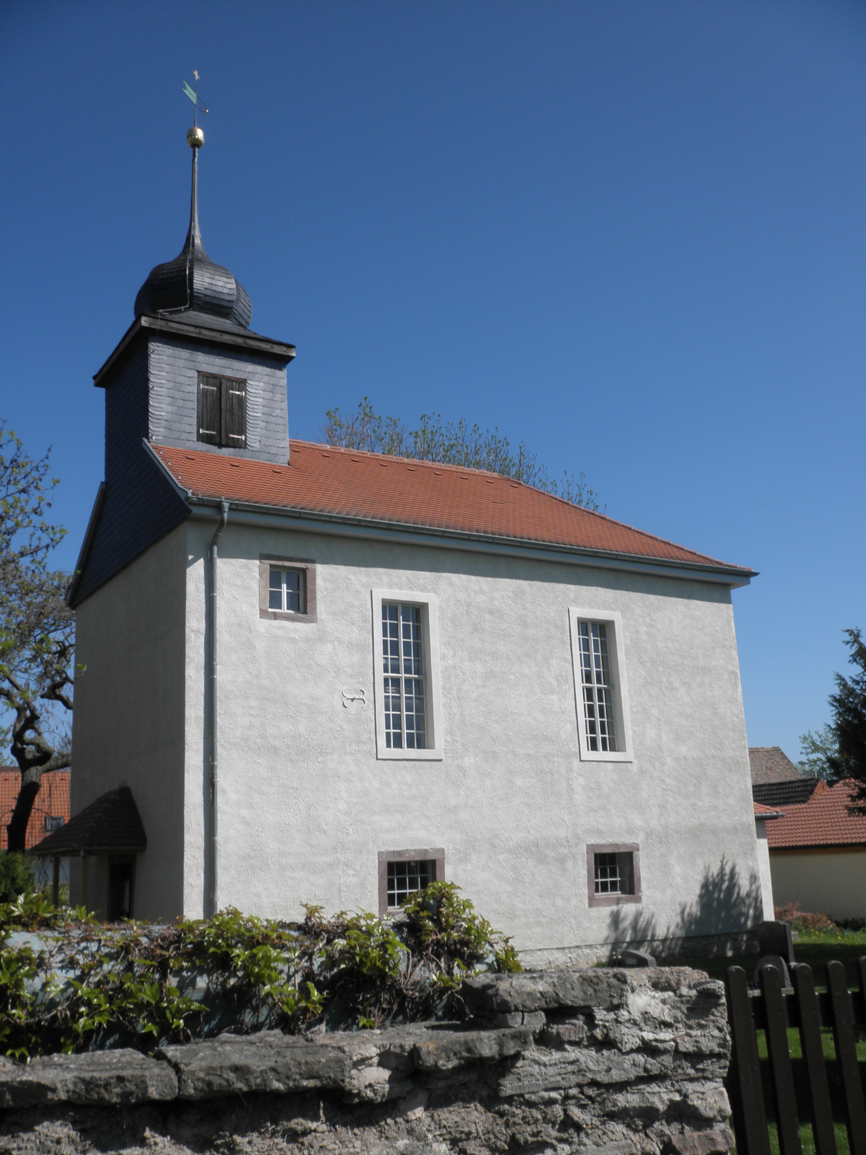 Church in Wallichen in Thuringia